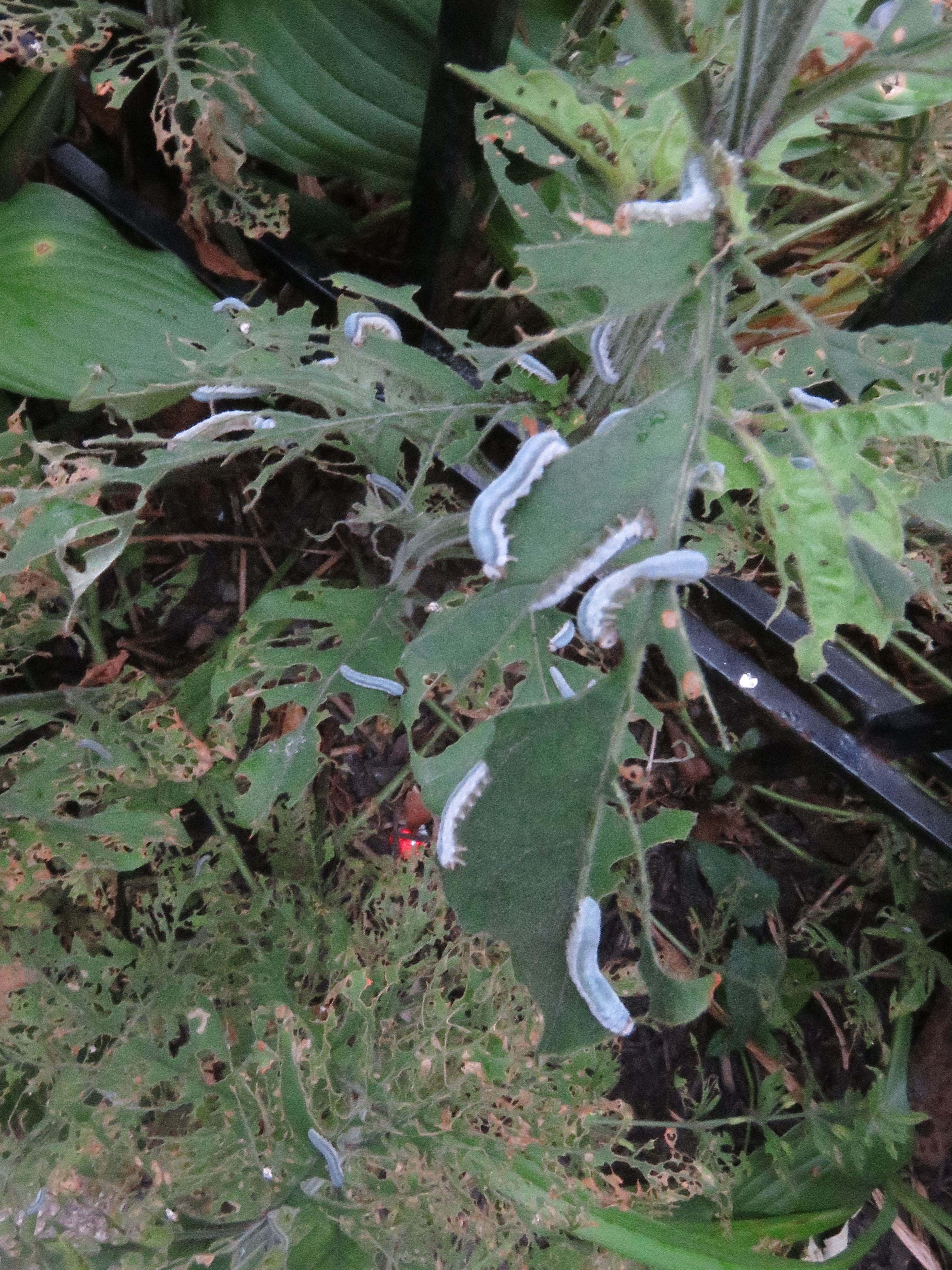 Larvae of Monostegia abdominalis feeding on Lysimachia terrestris